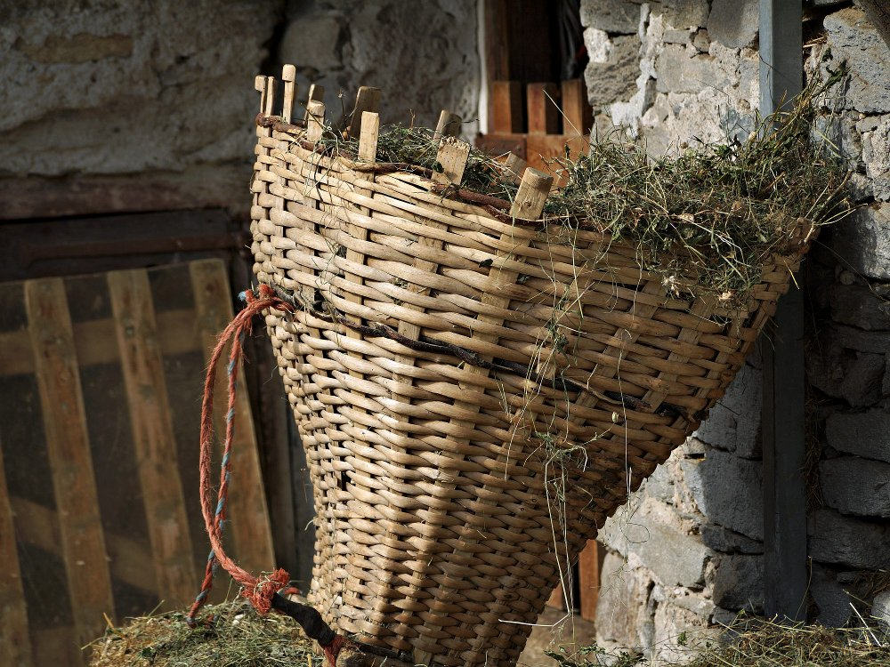 pannier, Bergell/CH